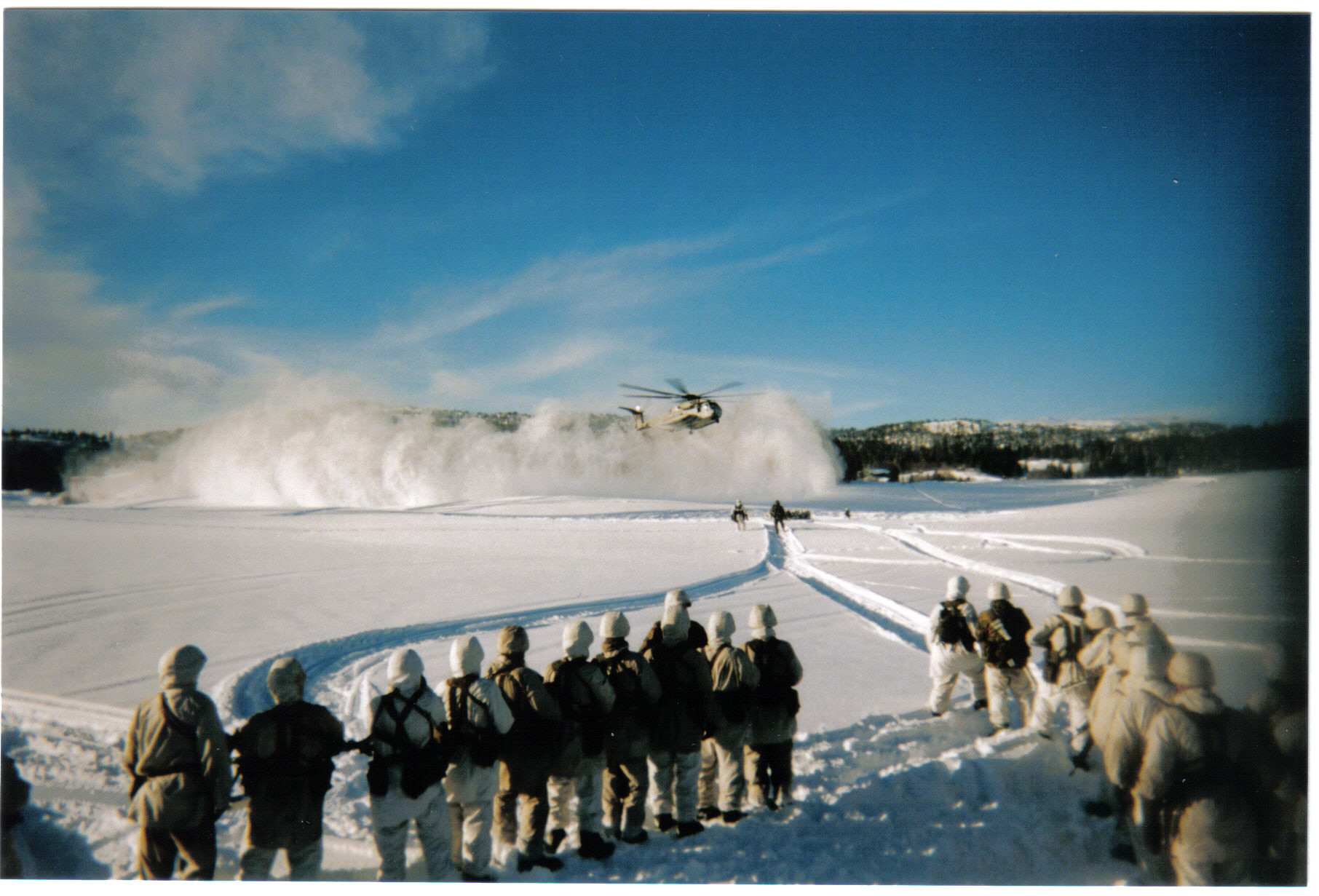 Norwegian Telemark Battalion during Battle Griffin '99